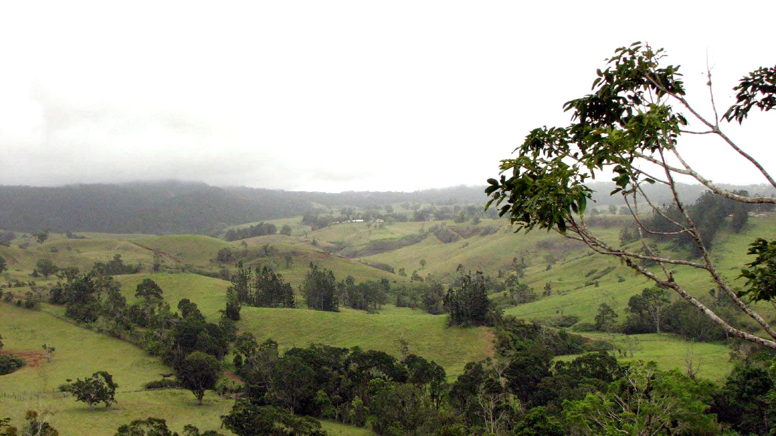 Atherton Tableland, Queensland, Australia